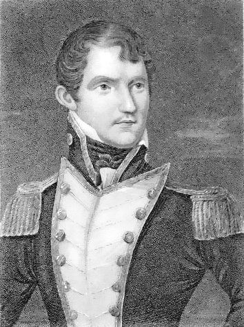 Narrative of a Pedestrian Journey through Russia and Siberian Tartary, to the Frontiers of China to the Frozen Sea and Kamtchatka. VOL.I of II.